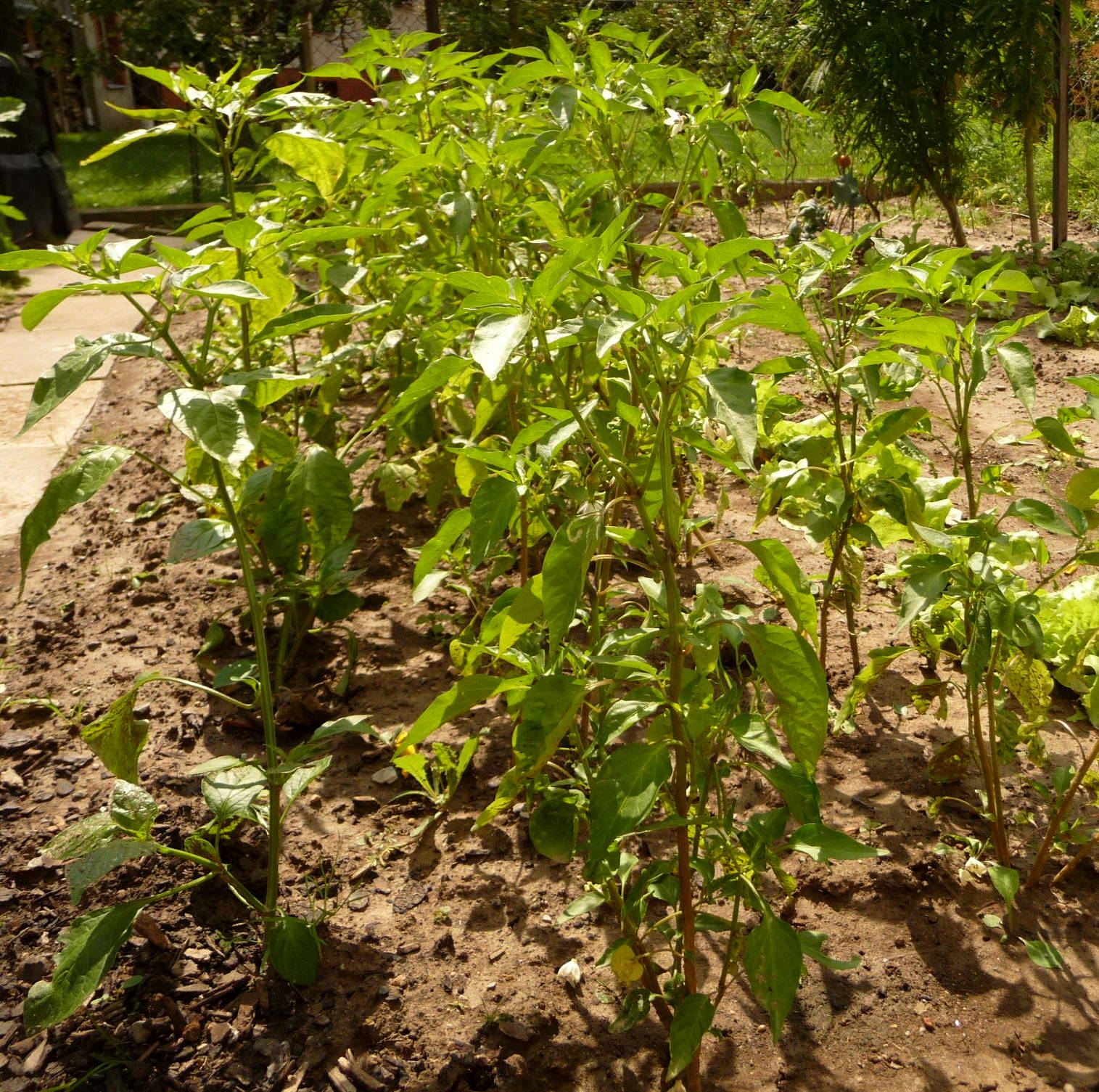 Capsicum annuum Beros, Fryšták